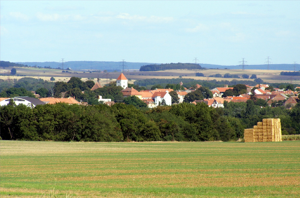 Rouchovany village. View to the east